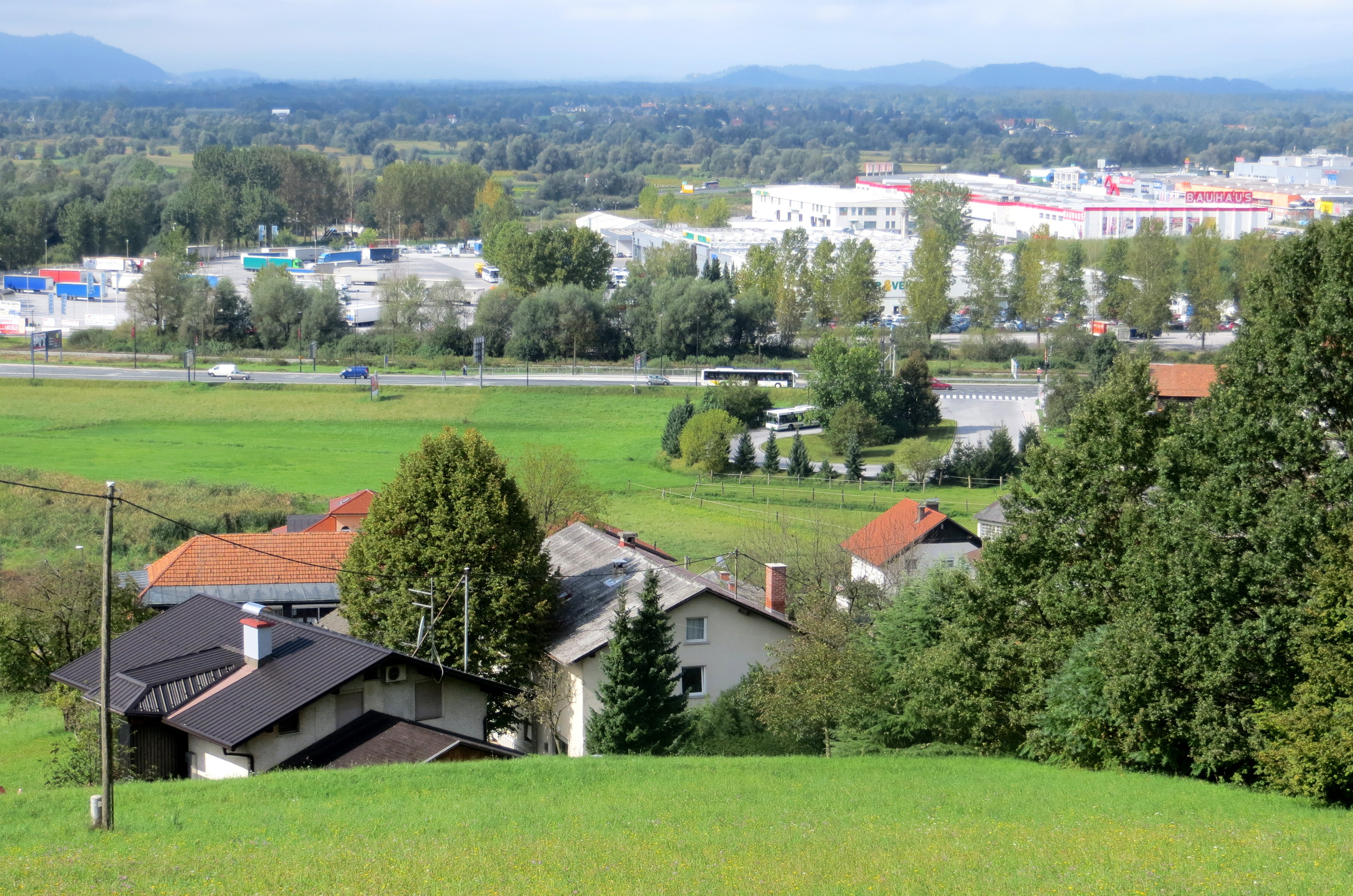 Old part of Rudnik, City Municipality of Ljubljana, Slovenia (foreground) and new shopping center (background)